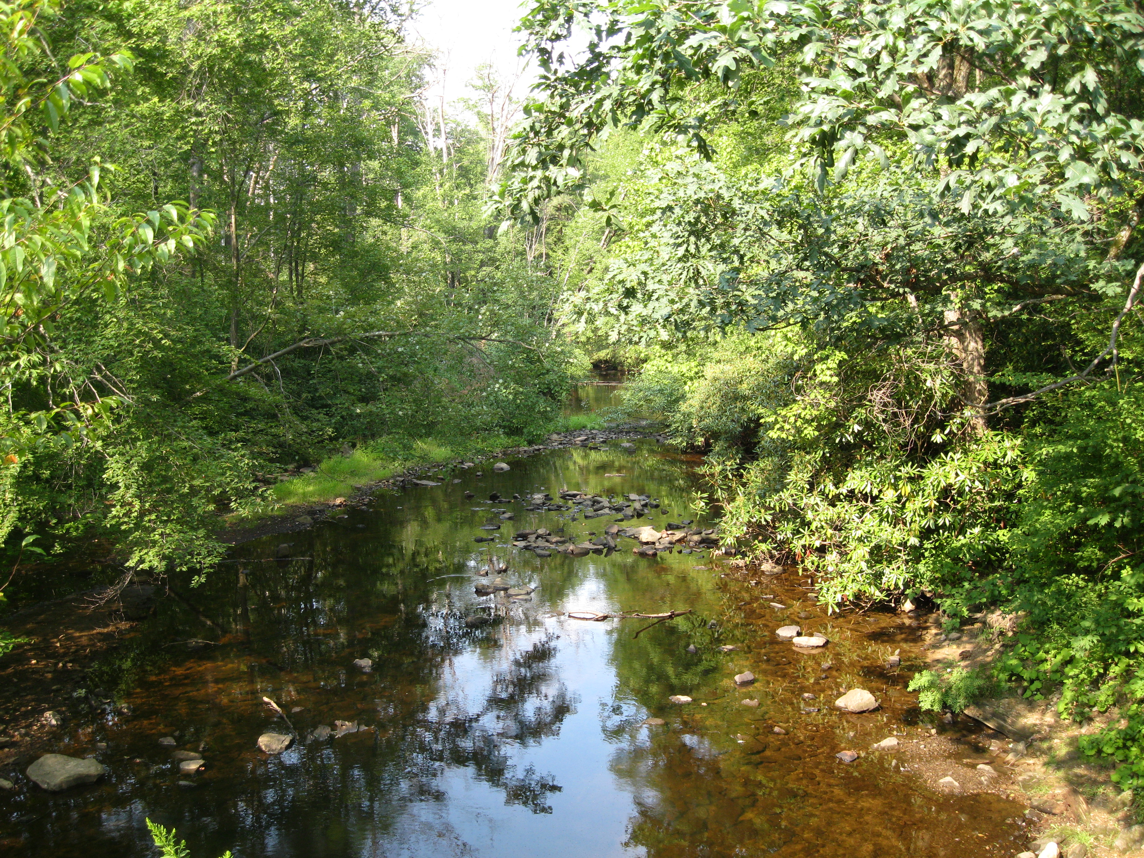 Black Moshannon Creek just downstream from the Dam on Black Moshannon Lake at Black Moshannon State Park, near Phillipsburg, Rush Township, Centre County, Pennsylvania, USA.